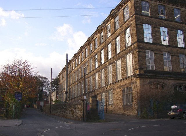 The side of Prospect Mills, Prospect Road, Cleckheaton, West Yorkshire, England. This side of the factory building is almost 100m long.